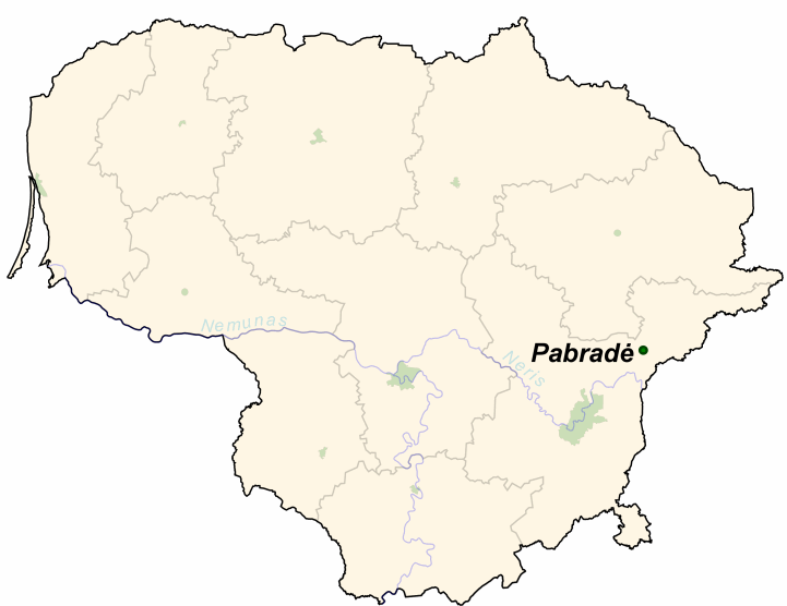 Pabradė on the map of Lithuania